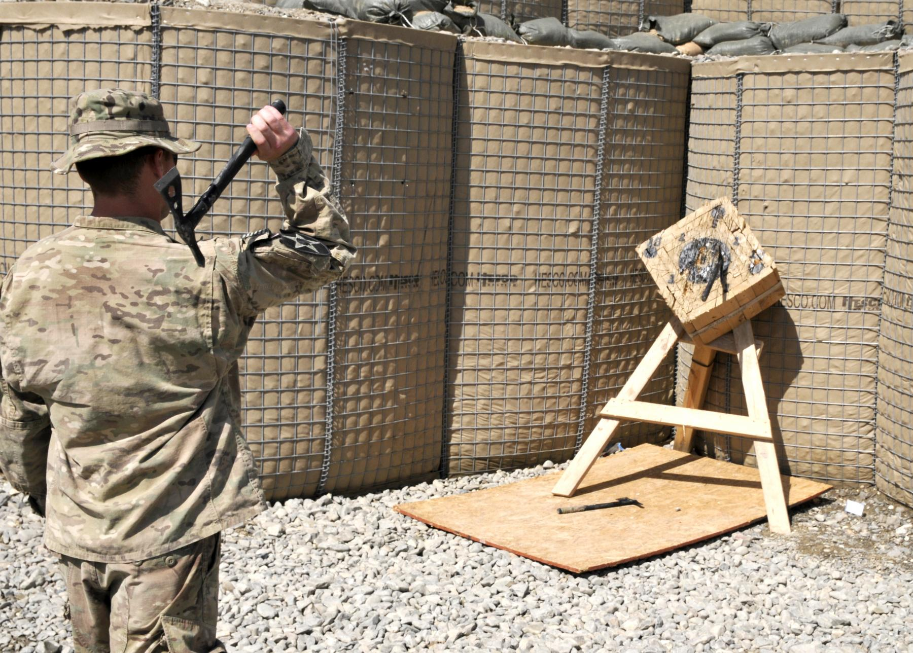 U.S. Army Spc. Kirk Calabrese with Bravo Company, 2nd Battalion, 23rd Infantry Regiment throws a tomahawk during the final event of the Top Tomahawk competition at Forward Operating Base Spin Boldak in Kandahar province, Afghanistan, March 31, 2013. The competition tested the Soldiers' physical endurance, marksmanship skills, and technical and tactical proficiency. (U.S. Army photo by Staff Sgt. Shane Hamann/Released) (Photo Credit: Staff Sgt. Shane Hamann)